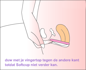 Step 2 Positioning the Softcup